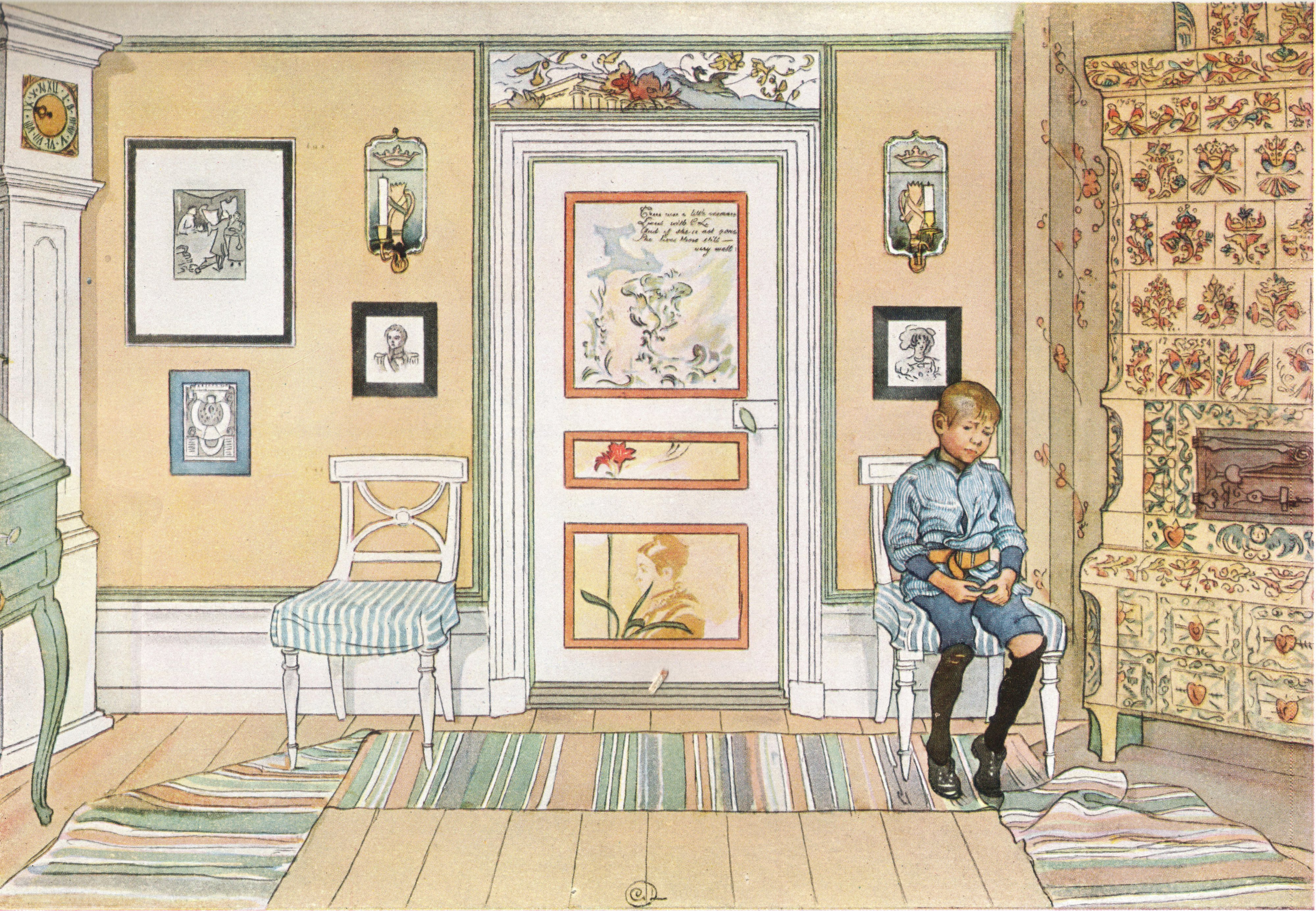 From A Home (26 watercolours)